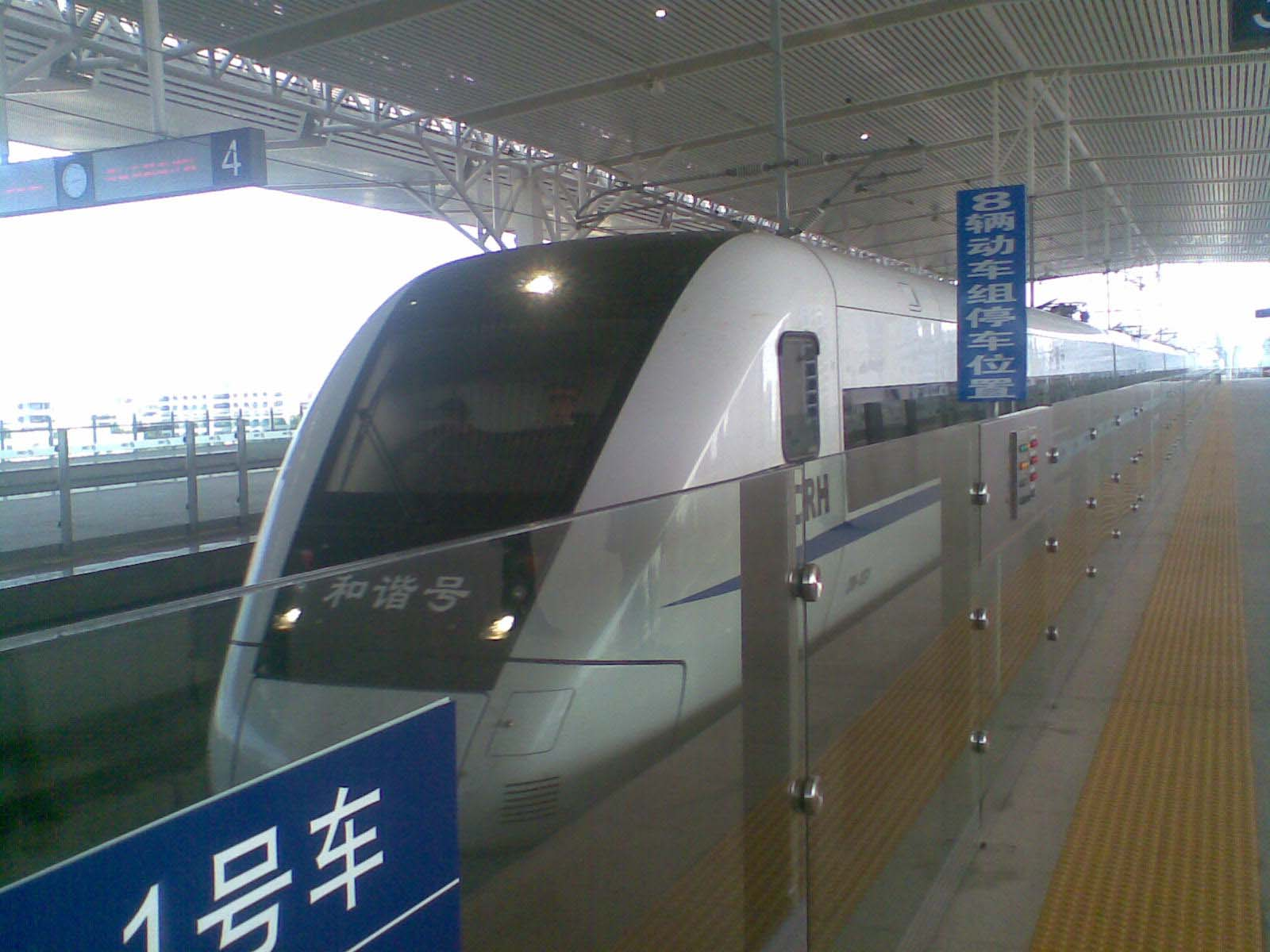 Bullet train arriving at Haikou East Railway Station